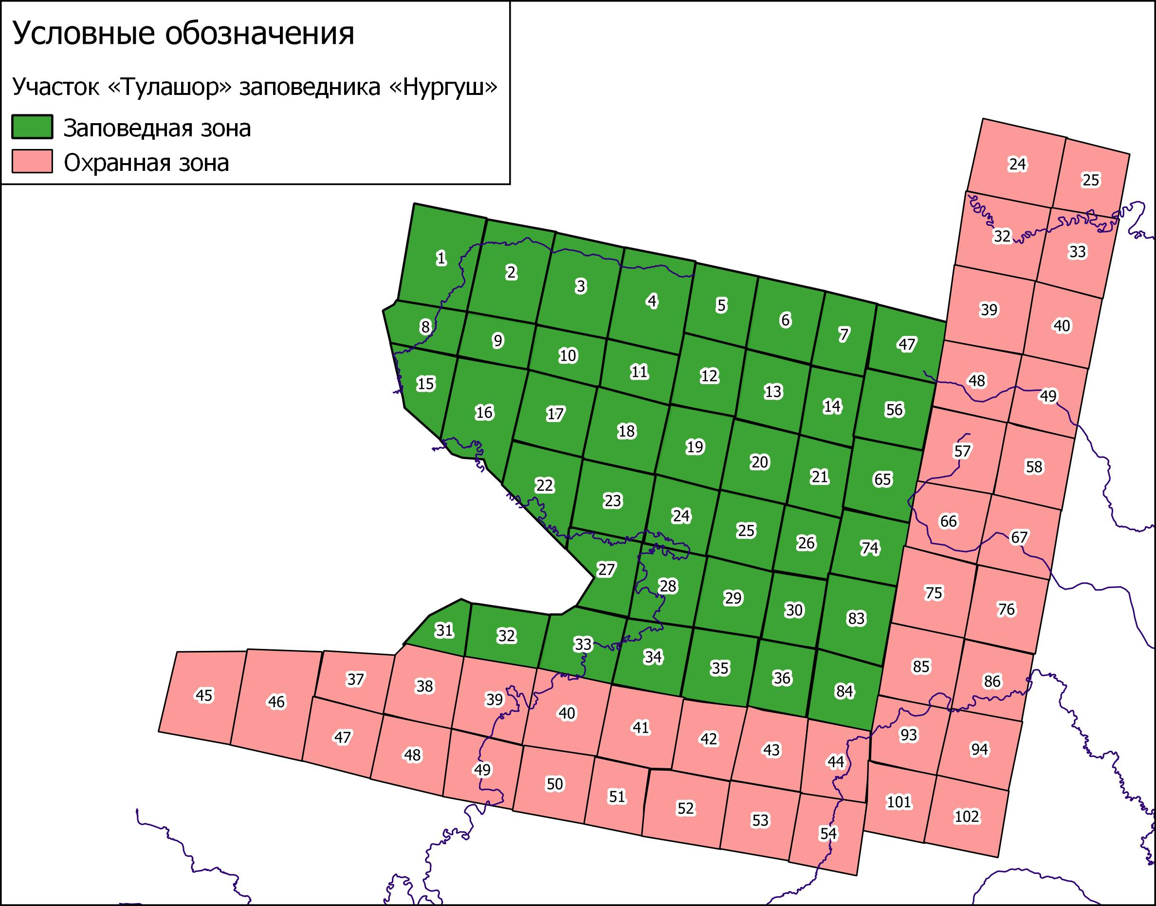 map of the area Tulashor reserve Nurgush